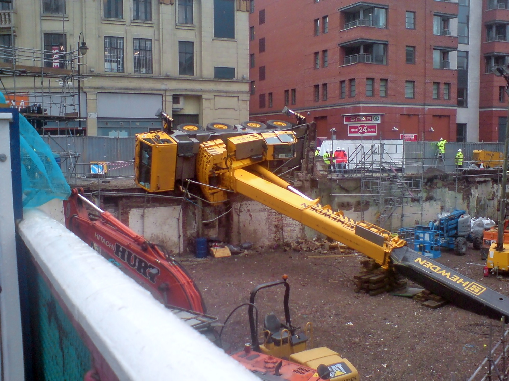 A fallen demolition crane on the old Spar Supermarket site on Oxford Road, Manchester.